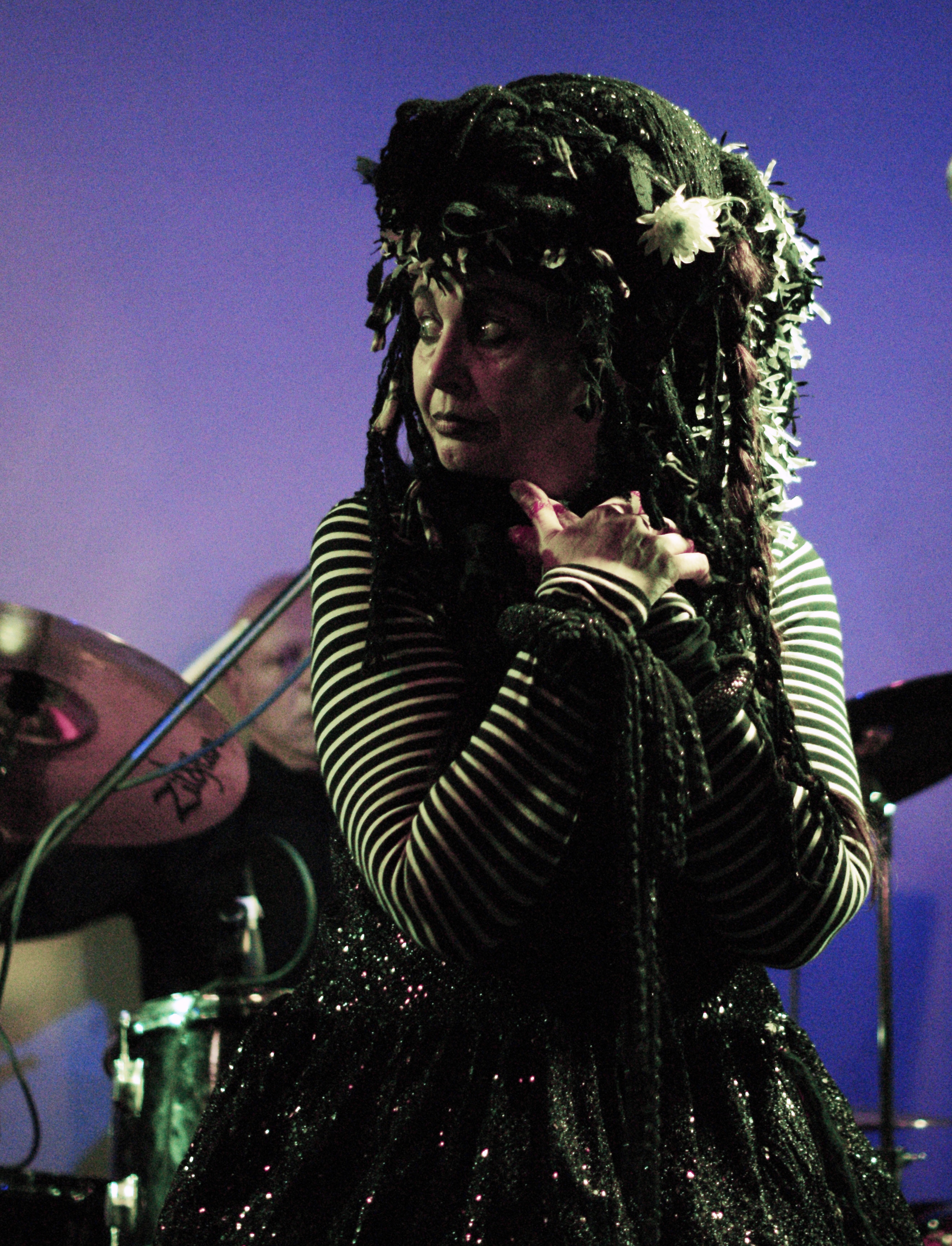 Lene Lovich performing at Dry Live, Manchester, on Friday 22nd March 2013.